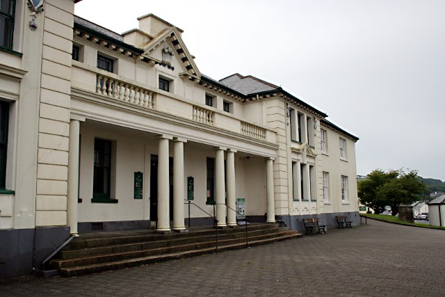 The High Moorland Centre This building is now a visitors centre housing educational exhibitions about Dartmoor.